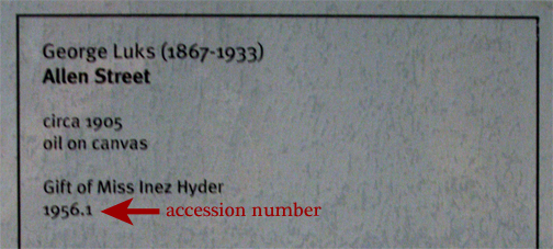 Label Accession Number (described at Wikipedia Loves Art—Hunter Museum rules) "Every object in our galleries has a label where you'll find that object's accession number. Please make sure the number is clearly printed on the index card."